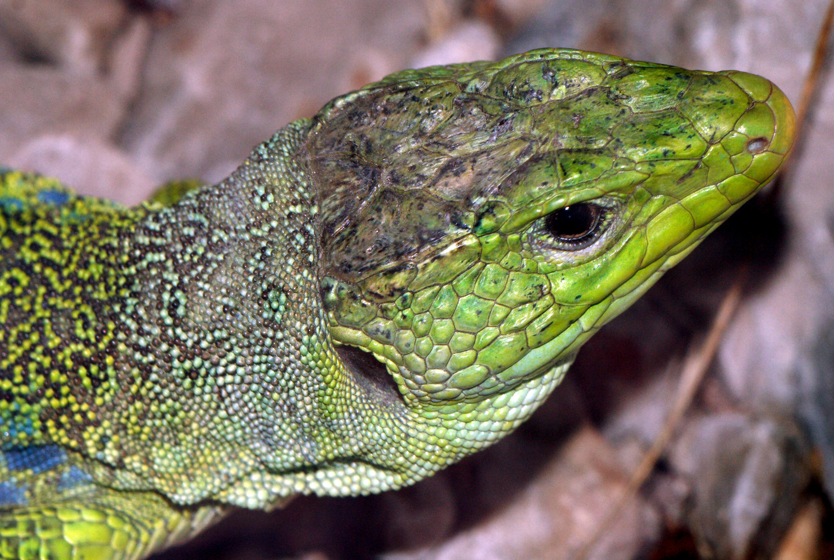 Head of Timon lepidus (Perleidechse)